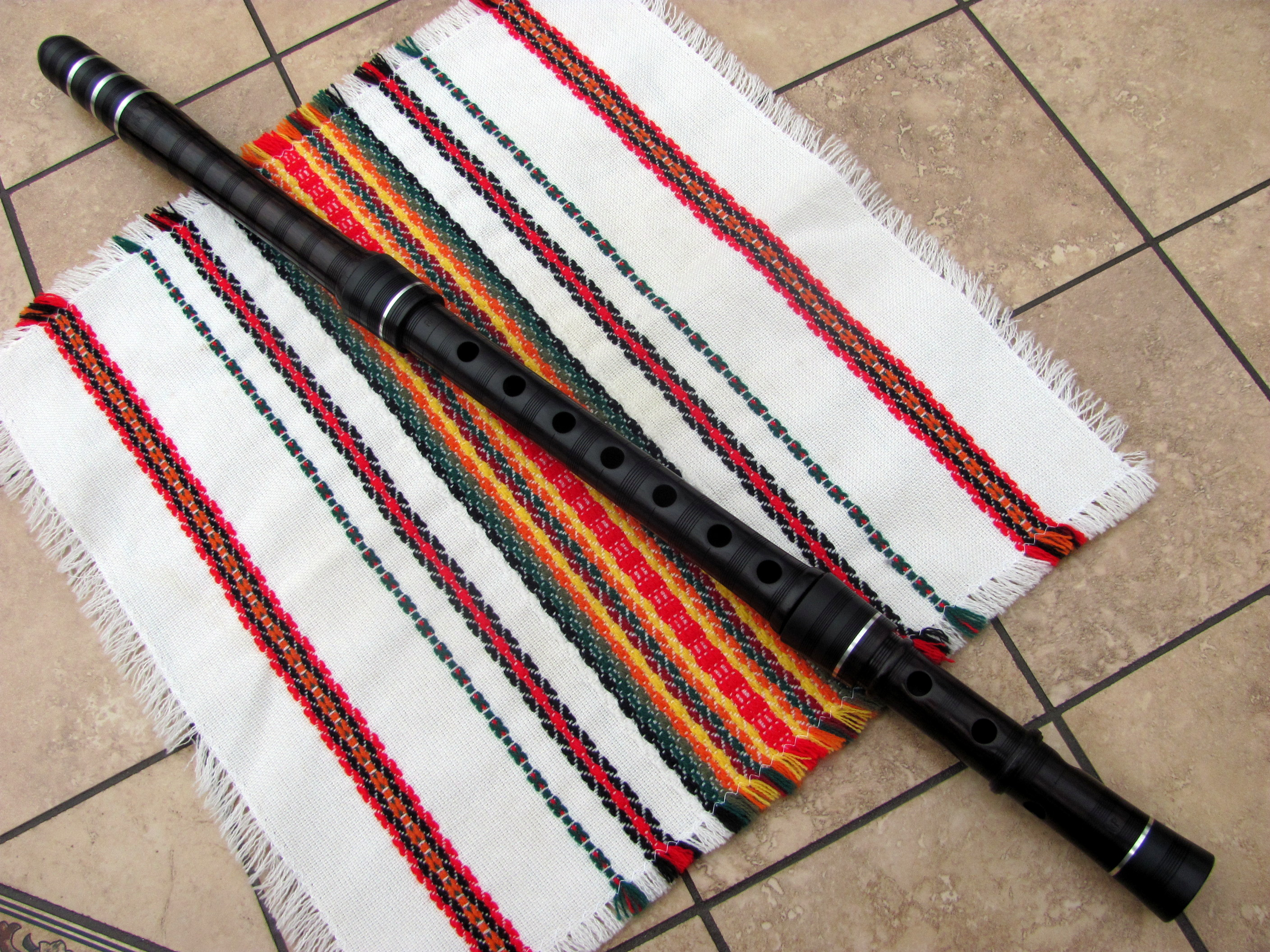 Custom hand made Bulgarian kaval in key of D, by master craftsman Radoslav Paskalev, Virginia, USA. Material used for it - African blackwood